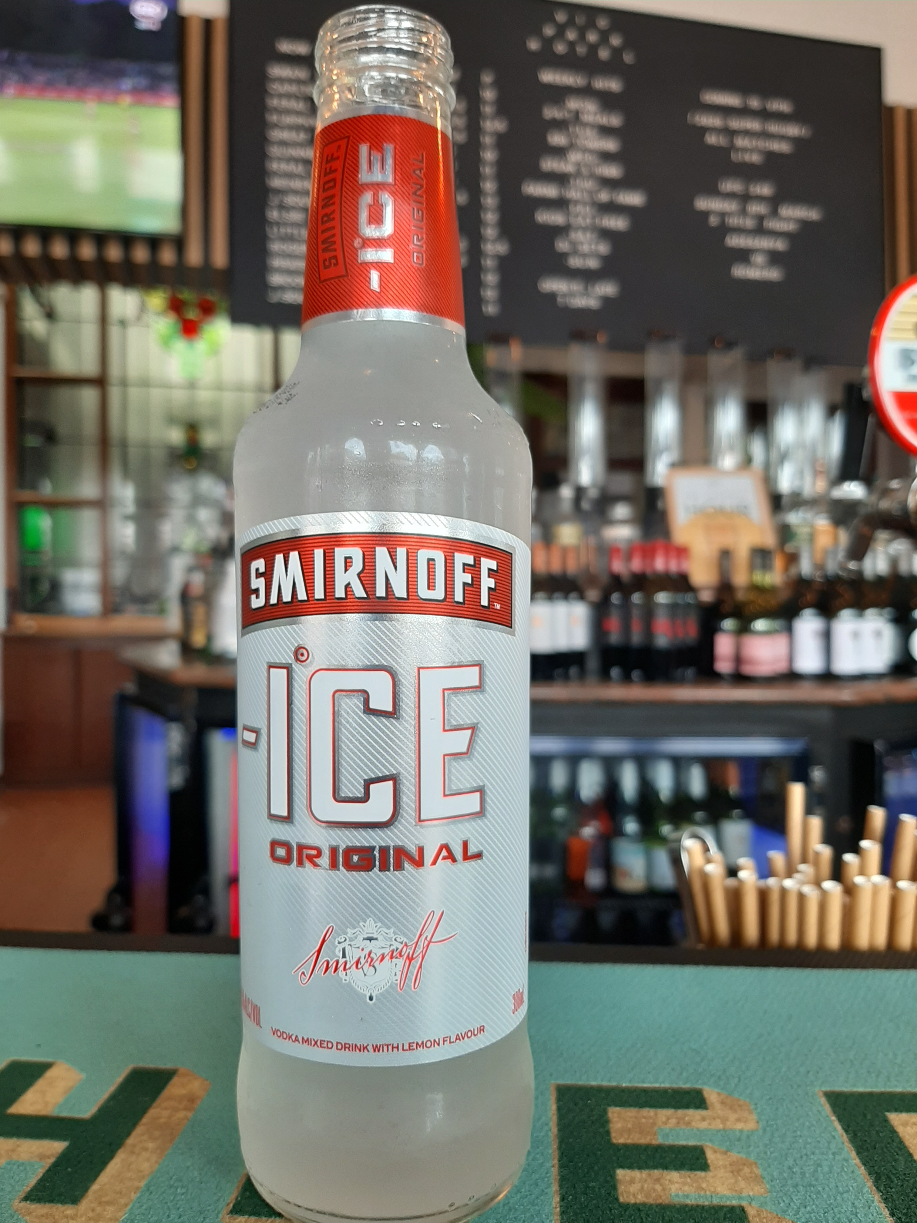 Smirnoff Ice Original. 300mL. 4.5 ALC/VOL